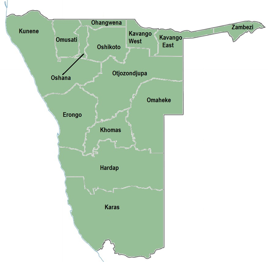 Map of Namibia's administrative regions, updated as of January 2017.